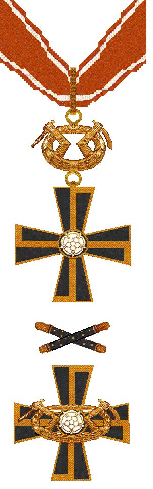 The I and II classes of the Mannerheim Cross of the Order of the Cross of Liberty (Finland): the crossed batons signify a double award of the II class